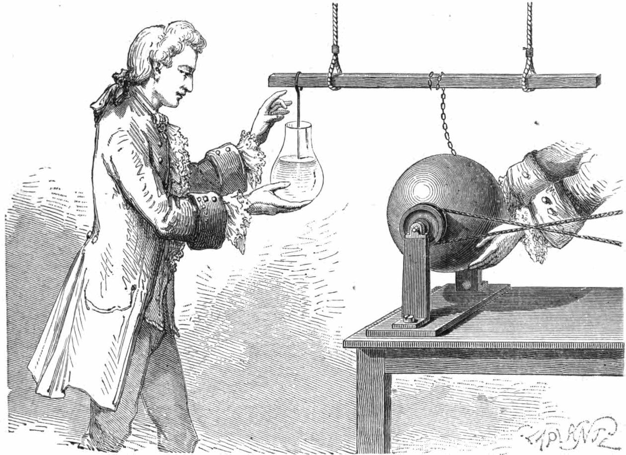 Artist's conception of the discovery of the Leyden jar. In 1746, Andreas Cunaeus, an assistant in the laboratory of Pieter von Muschenbroek in Leyden, attempts to "condense" electricity in a glass of water. The rotating glass sphere (right) is an electrostatic machine. The static electricity generated by the hands rubbing on it is transferred through the chain to the suspended metal bar, and from it via the hanging wire into the glass of water. The glass acted as a capacitor, and a large charge built up in the water, and an equal charge of the opposite polarity built up in Cunaeus' hand holding the glass. When Cunaeus reached up to pull the wire out of the water, he got a severe shock, much worse than an electrostatic machine could give, because the amount of charge stored was much larger than the terminal of an electrostatic machine could store. Cunaeus took two days to recover. Musschenbroek was also impressed by the powerful shock he received from the device, writing, "I would not take a second shock for the crown of France". Reports of the experiment were widely circulated, and scientists began to investigate the charge storage ability of these "Leyden flasks". Eventually the water was replaced by foil coatings on the inside and outside of the jar to store the charge.